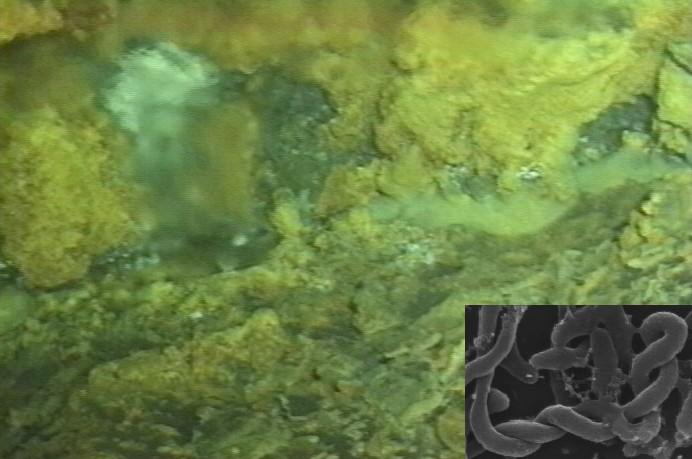 Bacteria on Loihi Seamount